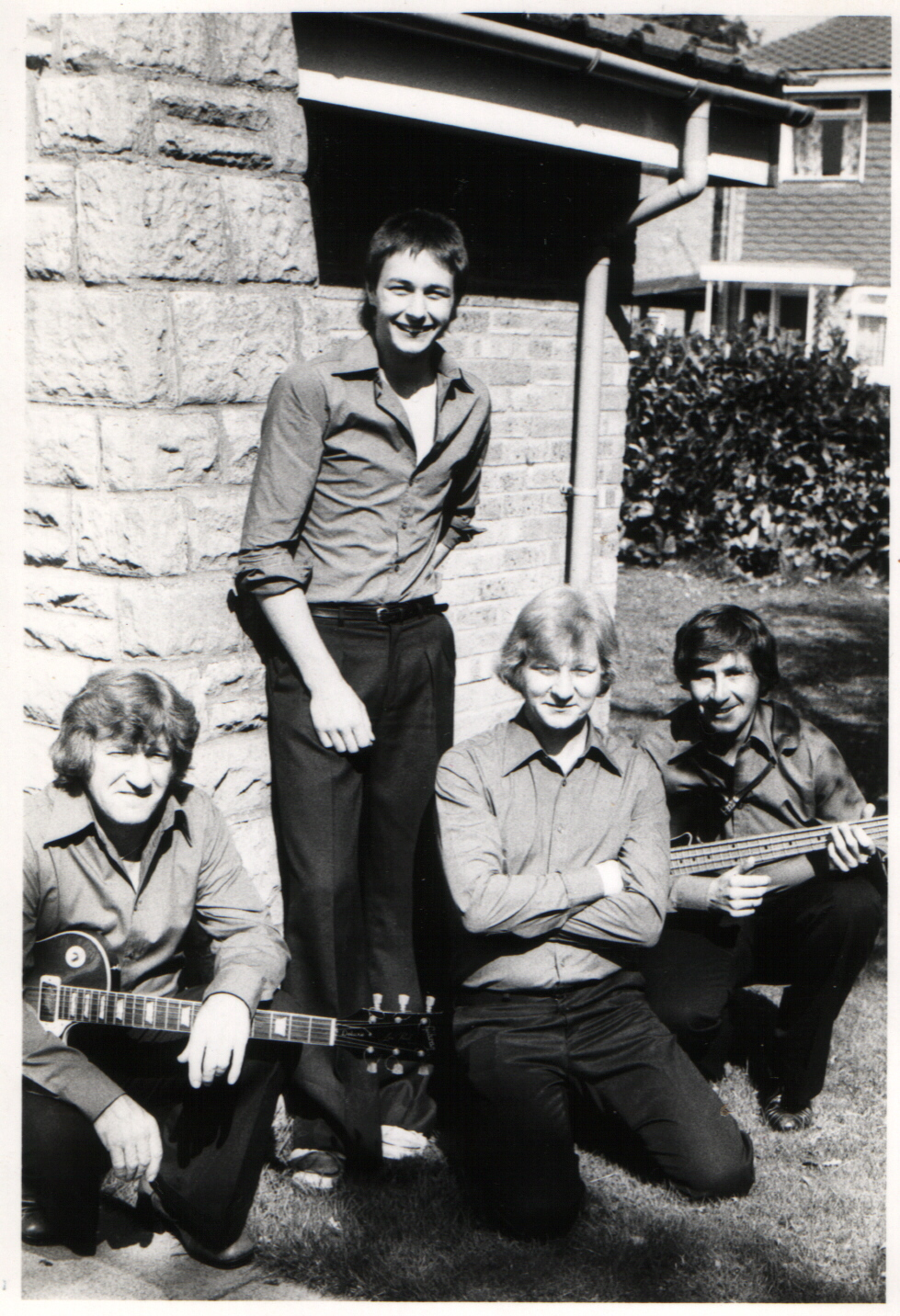 Clive Parker second from left, working man's club band shot in Bordon Hampshire in 1975